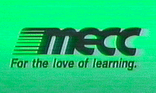 MECC logo